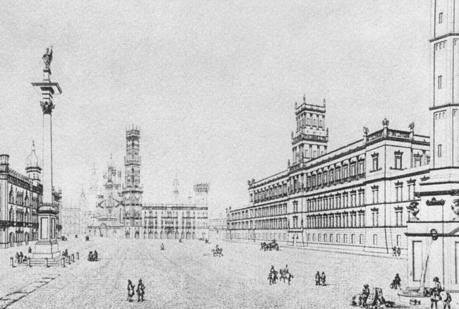 Project of rebuilding the Royal Castle in Warsaw, 1843 by polish architect Adam Idzkowski (1798-1879)